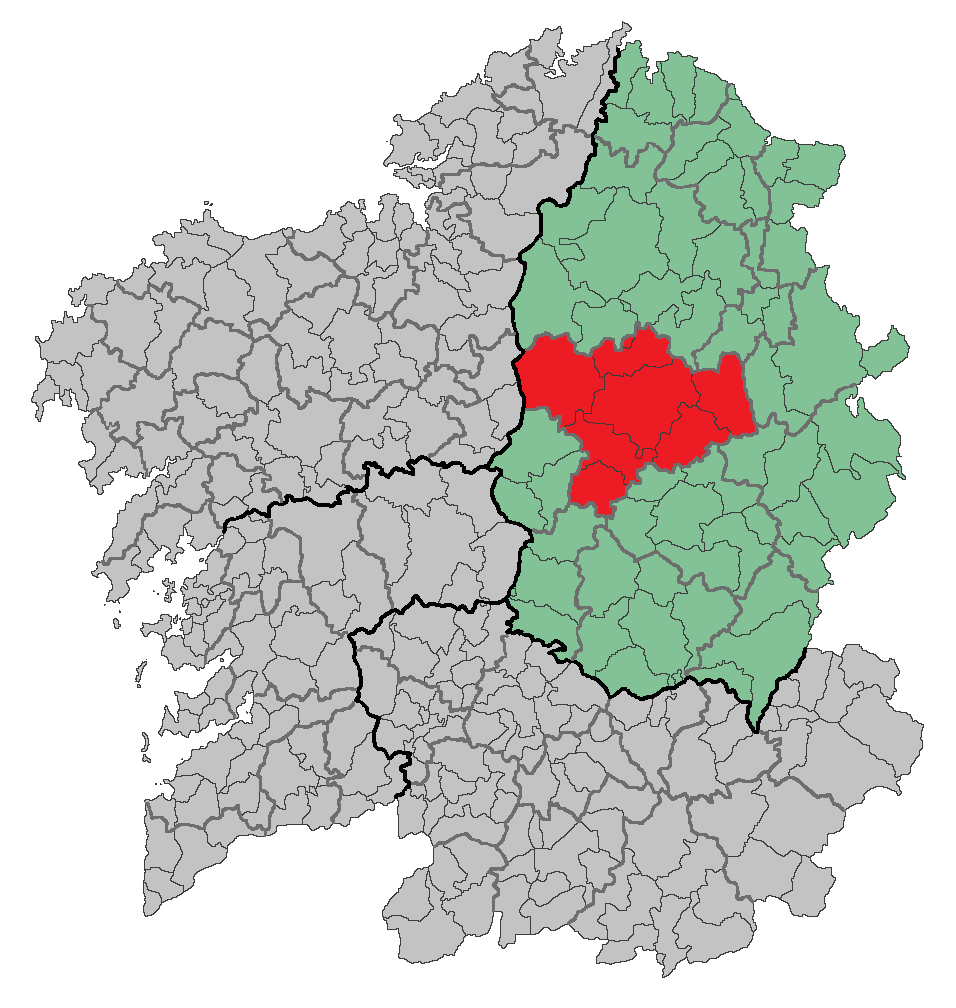 Region of Galicia (Spain)Based in: Image:Location of Betanzos.png Source: Designed by Leoplus. Original picture, designed by Caiser over a work made by Alyssalover.